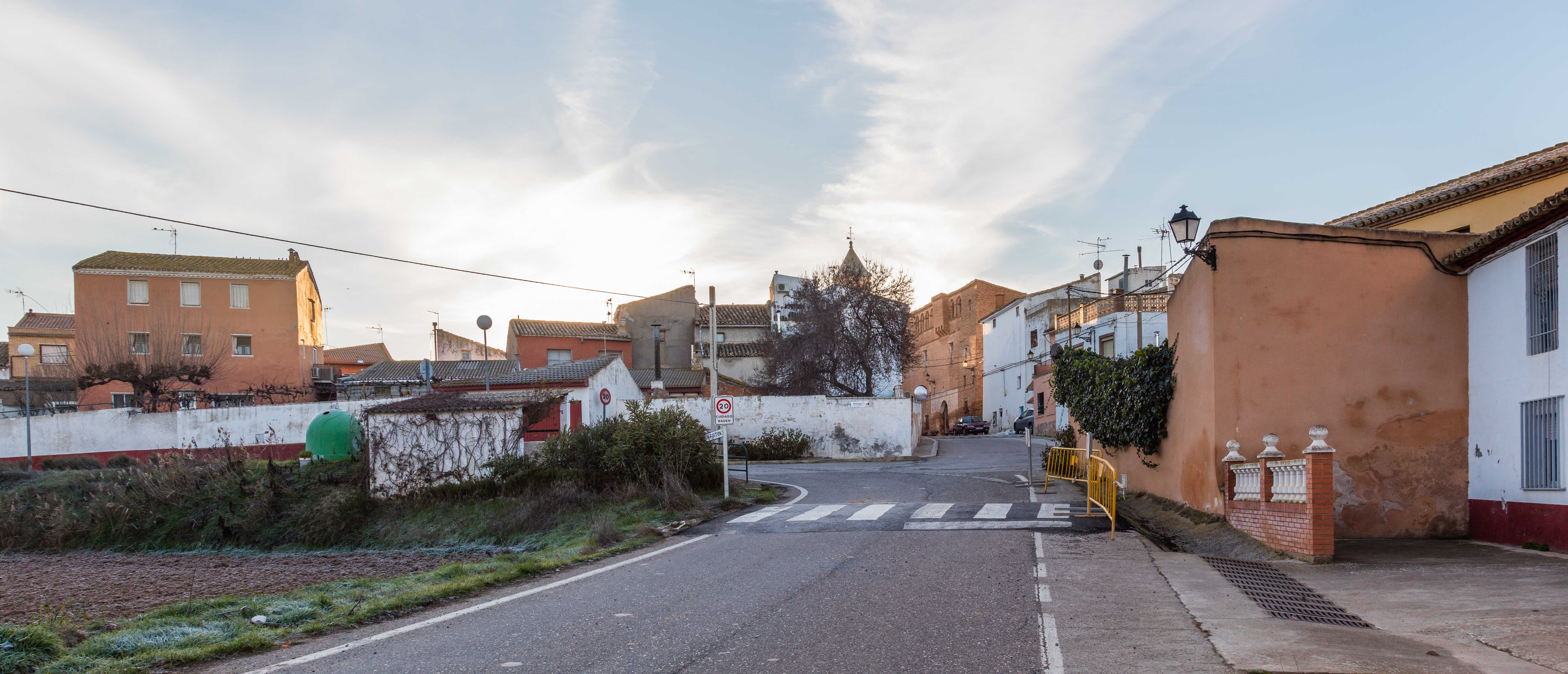 Mozota, Zaragoza, Spain